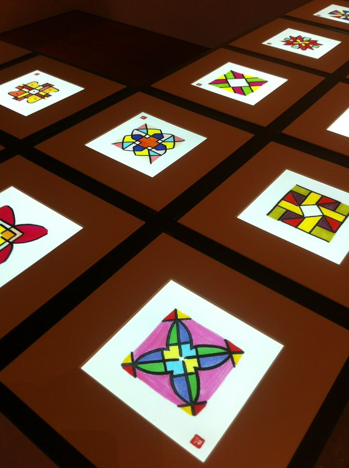 Chinese character motif artworks from Sun Chan's Mirage (Huàn Xíng) Series 中文（香港）: 陳伸《幻形》系列，漢字藝術圖畫